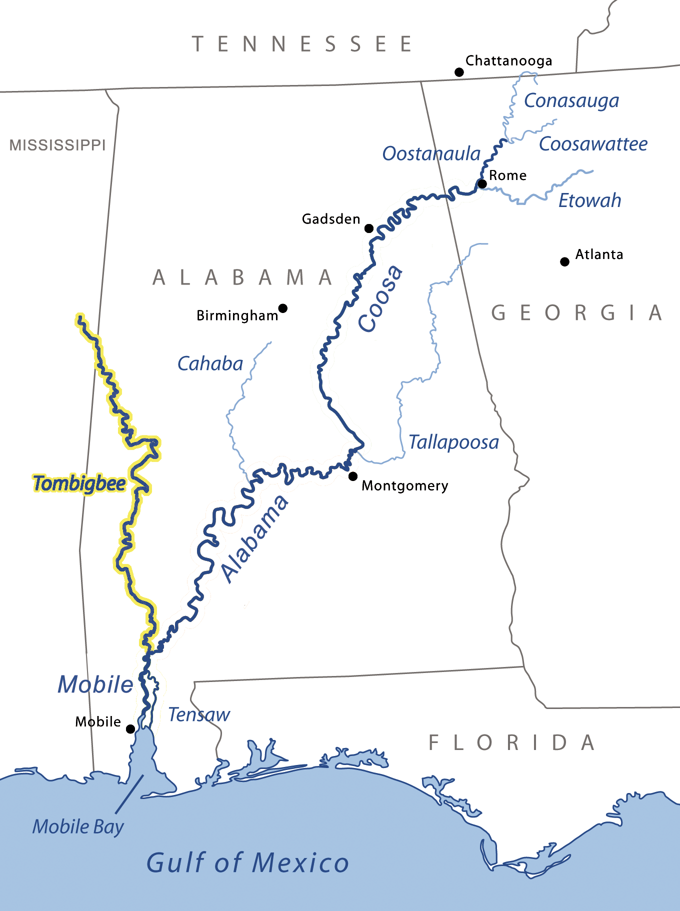 Map showing the Tombigbee River, flowing from the State of Mississippi into Alabama, and joining the Alabama River. Other rivers include: the Tensaw River, Coosa River, Cahaba and Tallapoosa. Not pictured: Tennessee River and smaller rivers.